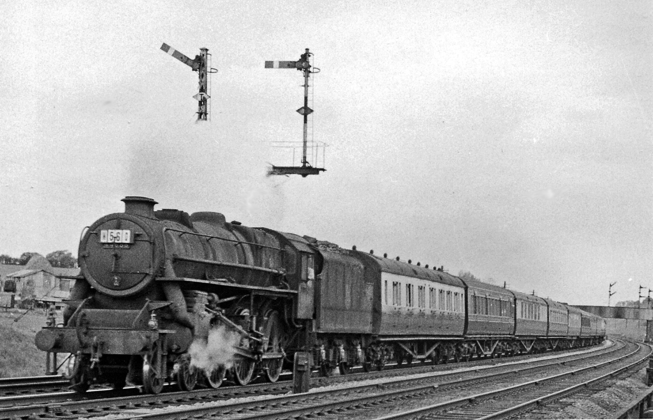 Manchester - London Cup Final Special approaching Bletchley. View NW, towards Rugby, Crewe etc.: West Coast Main Line. This is one of numerous Specials which passed me on my memorable walk along the track in 1957 (see for example SP8535 : Up Cup Final Special on the WCML north of Bletchley). This is near Denbigh Hall Box, the locomotive being Stanier/Ivatt No. 44686 (built 4/51, withdrawn 10/65), one of the few fitted not only with roller-bearings but a double-chimney and Caprotti valve gear.